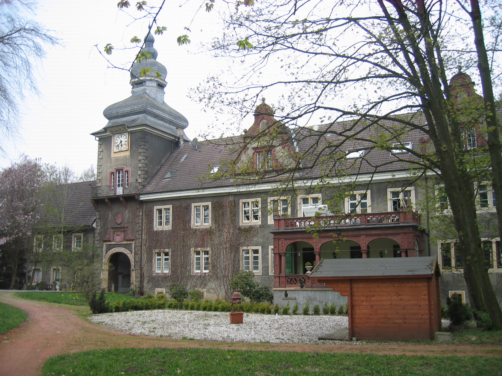 Spenge, District of Herford, North Rhine-Westphalia, Germany.